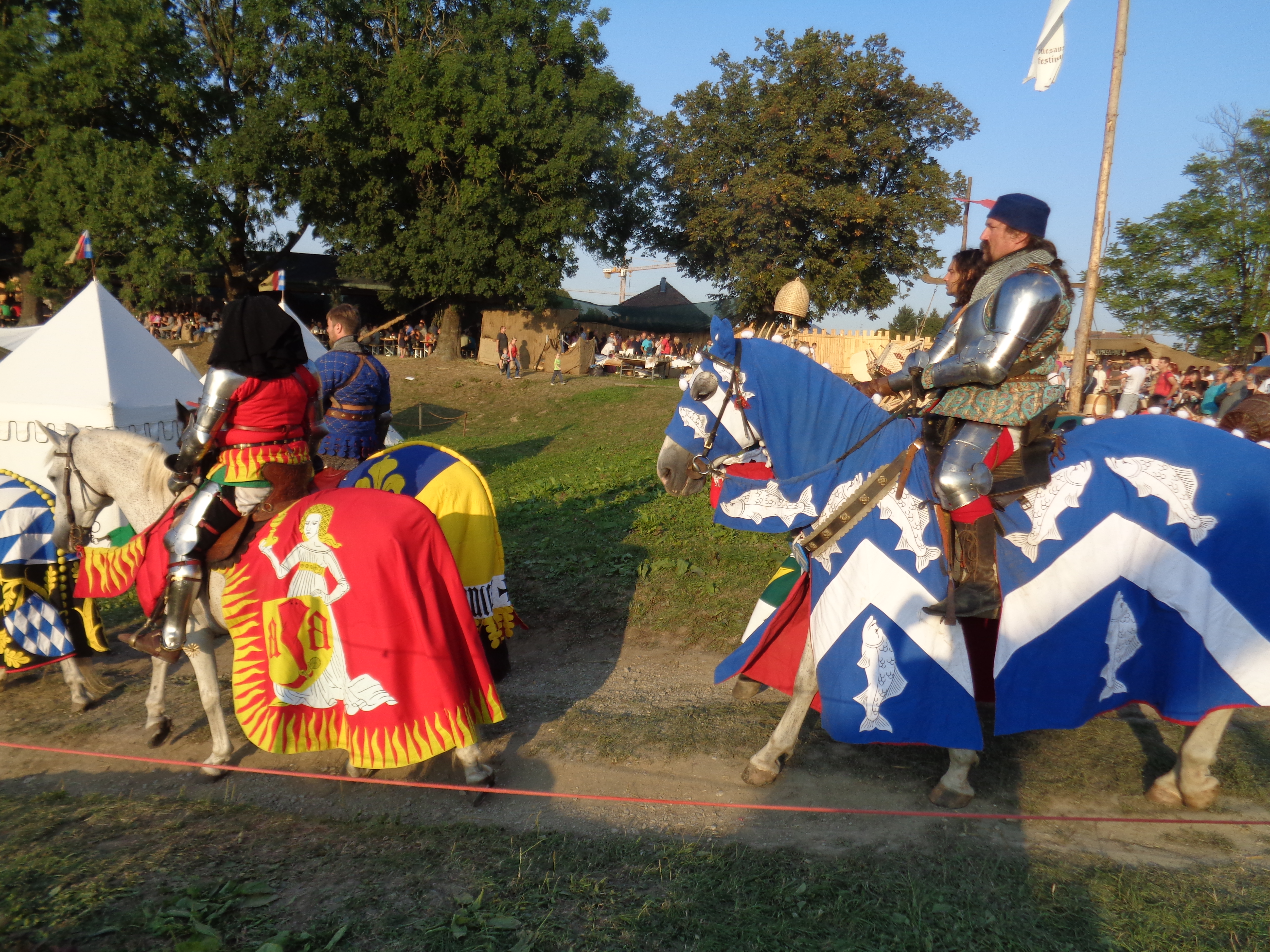 Koprivnica Renaissance Festival, Koprivnica, Croatia (2016) - knights riding the horses